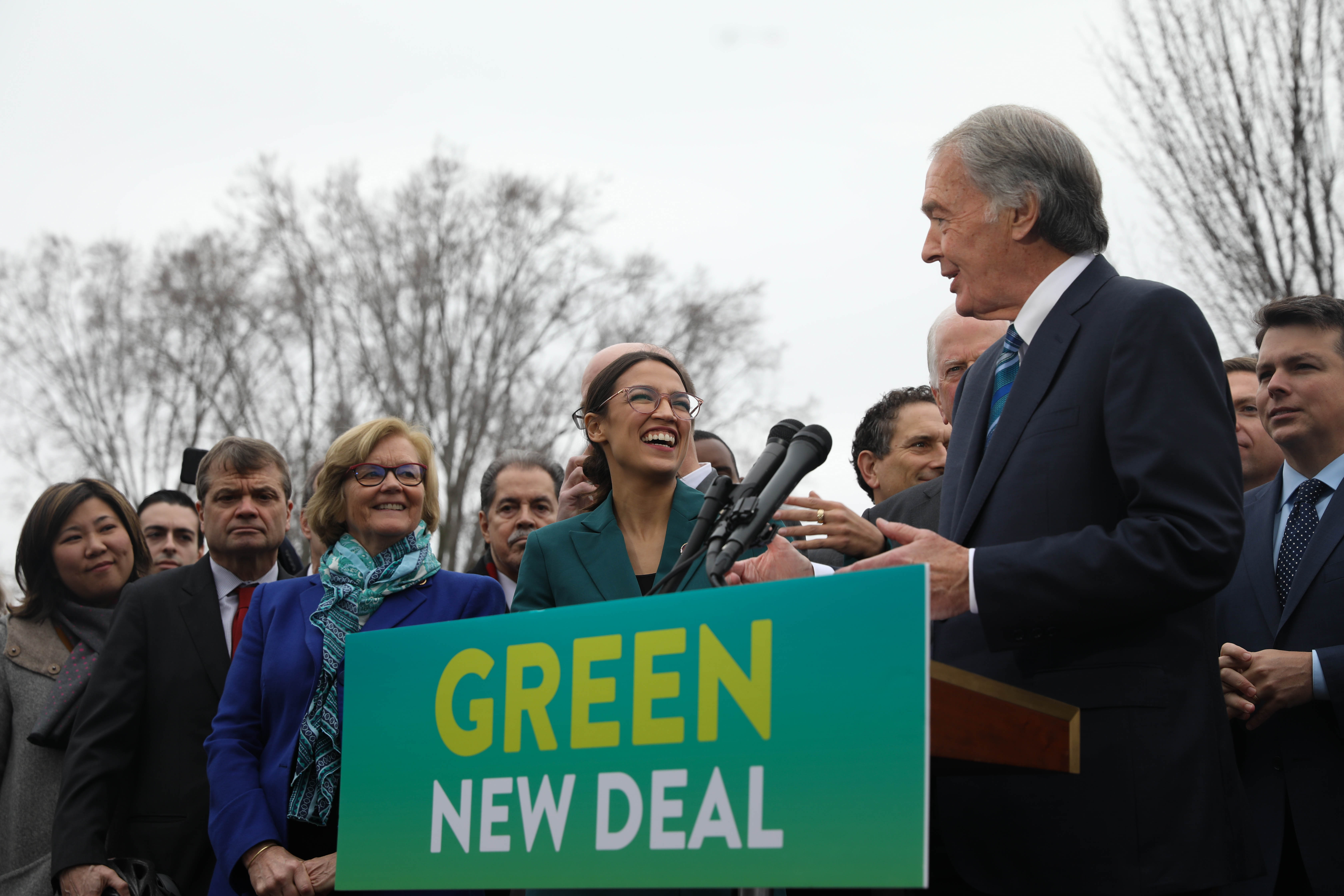 Representative Alexandria Ocasio-Cortez (center) speaks on the Green New Deal with Senator Ed Markey (right) in front of the Capitol Building in February 2019